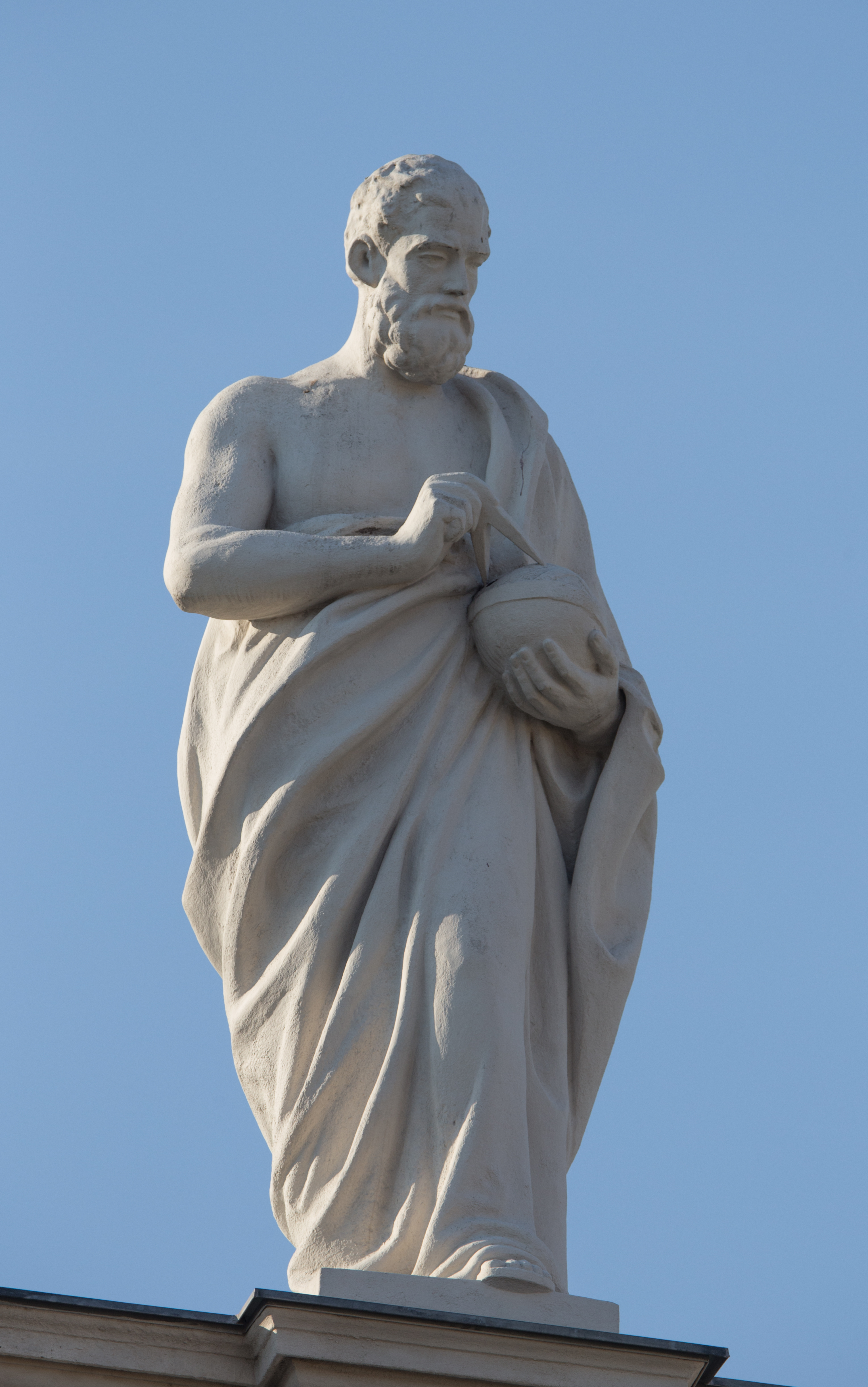 Empedocles, Philosopher, Figure at the attica of the Vienna Museum of Natural History (Bellariastraße) Artist: Friedrich Beer